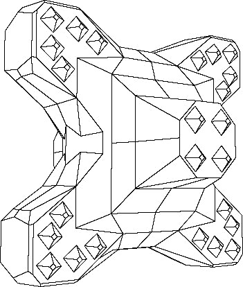 ACCROPODE II single layer breakwater armour unit